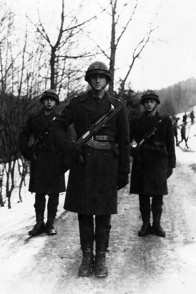 WOP post in Rycerka Górna